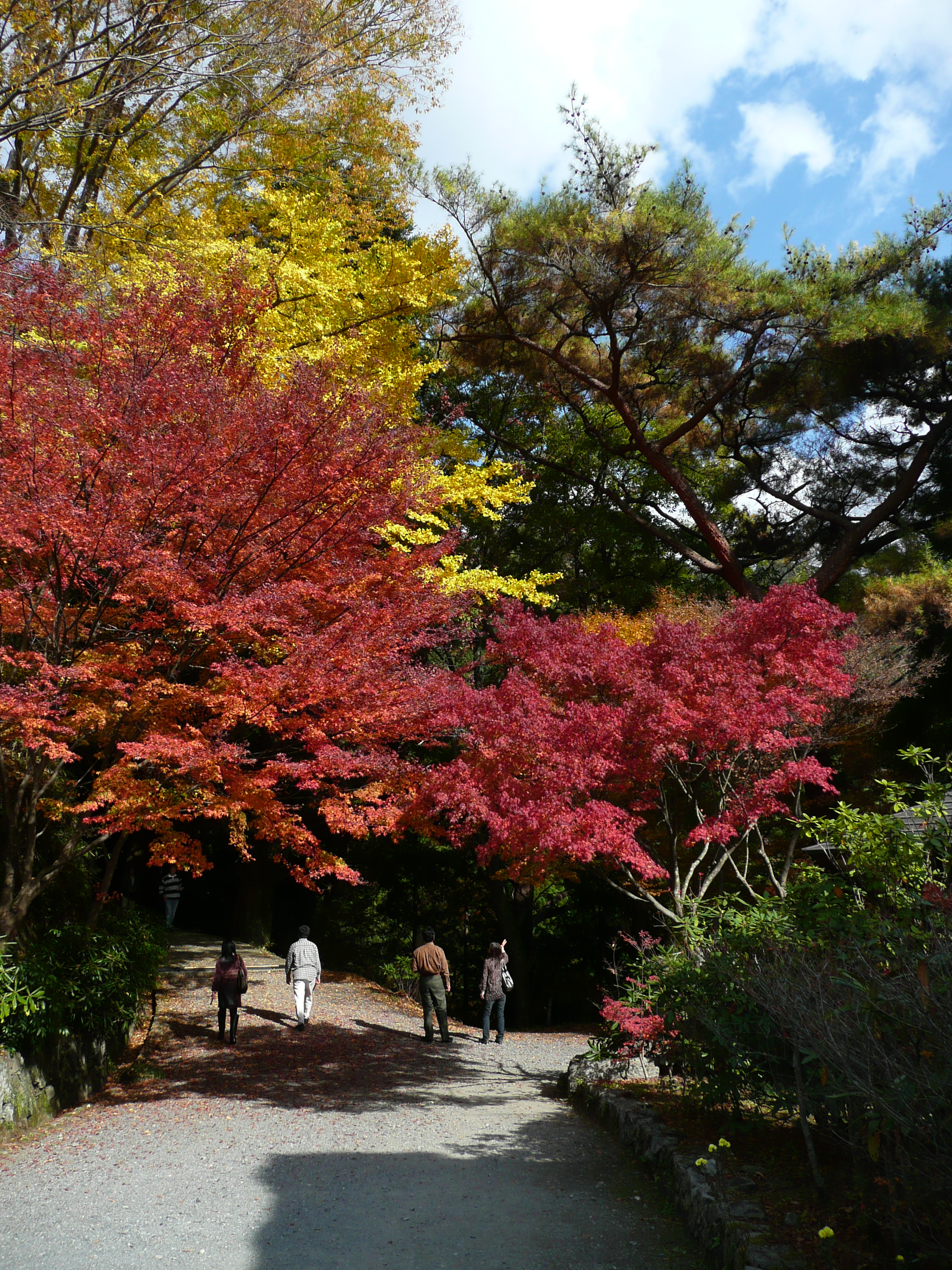 Gokanosho - Heike no Sato (Momigi, Izumi, Yatsushiro City, Kumamoto, Japan)